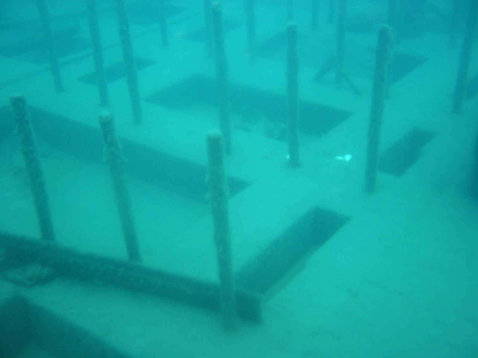 Underwater photograph of the Hesper (shipwreck), showing several long bolts that were used to mount the engine to the ship.